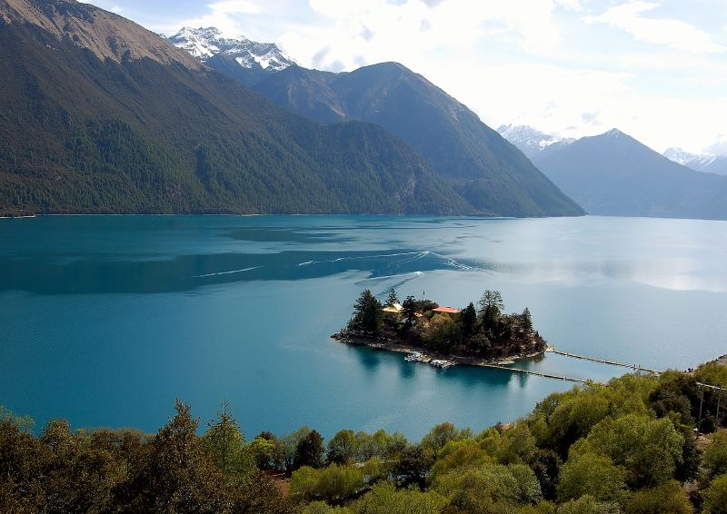 Basum Lake, Gongbo'gyamda County, Nyingchi Prefecture, Tibet Autonomous Region, China